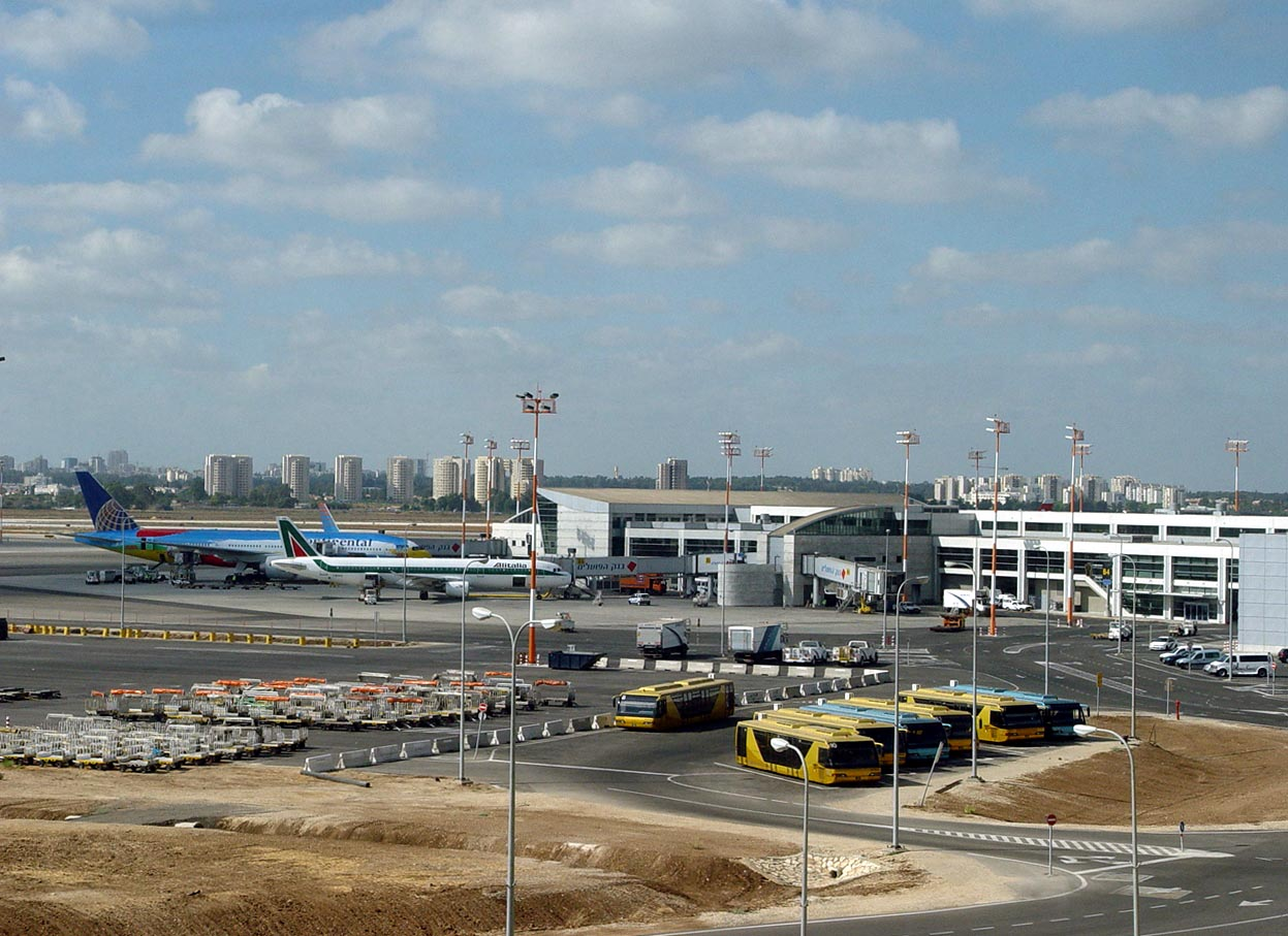 Concourse B — Ben Gurion Int'l Airport